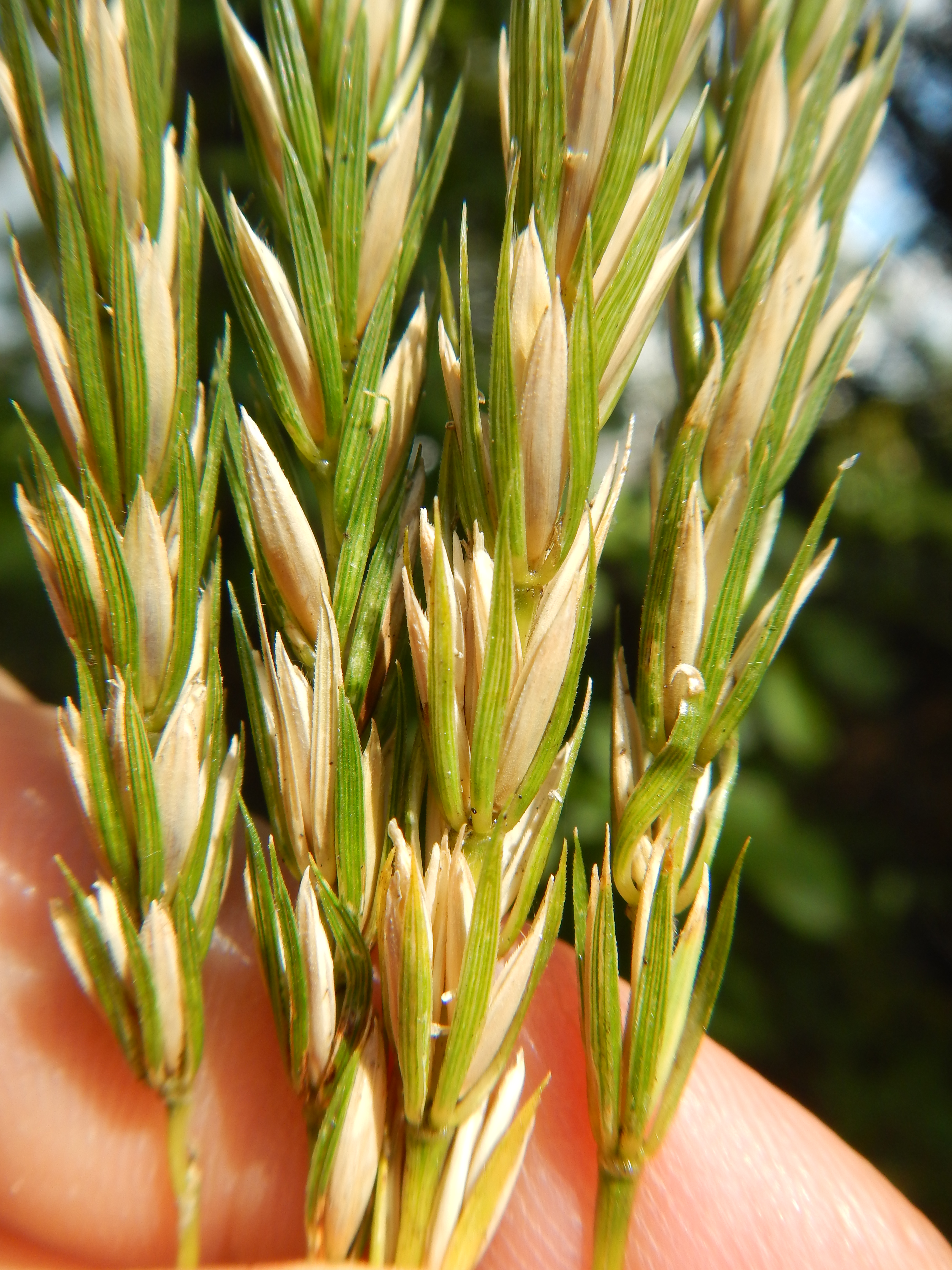 More common in lower elevations of Montana, this is the only known occurrence of this grass in Gallatin County. Virginia wildrye is very similar to Elymus glaucus. However, Virginia wildrye occurs in disturbed areas of low elevations (such as this trail side population occuring in the town of Bozeman and coexisting with Solanum dulcamara and other weedy species) and has glumes with basal portions that are widely diverging, lighter in color, and boney-tectured. Blue wildrye (Elymus glaucus) occurs in montane meadows and grassy understory and has glumes with bases that are not divergent and green like the rest of the distal portion of the glumes. The leaves are also sufficiently broad such that they tear longitudinally over the full length.